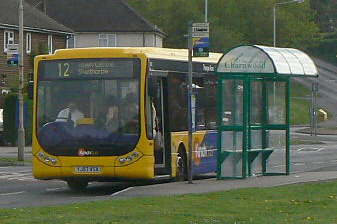 Kinchbus bus 321 (reg. YJ07 VSX), a 2007 Optare Tempo single-decker, pictured in Thorpe Acre Green, Loughborough, Leicestershire.